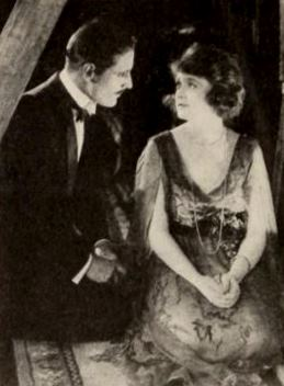 Still from the American comedy film The Make-Believe Wife (1918) with David Powell and Billie Burke, on page 34 of the November 2, 1918 Exhibitors Herald.